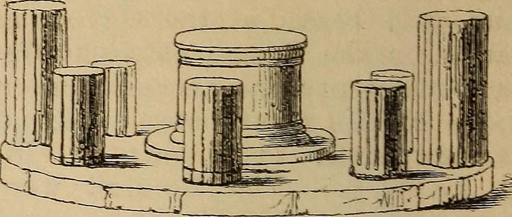 A sacred place where lightning has struck, consecrated with the sacrifice of a two year old sheep and the placement of a puteal.